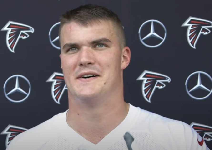 John Cominsky in 2019